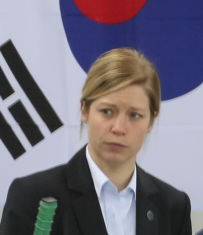 Sarah Murray; Head Coach of SouthKorea; IIHF Ice Hockey Women’s World Championship DIVⅡ Group A; Korea vs Australia; April 5, 2017; Kwandong Hockey Center, Gangneung-si, Gangwon-do